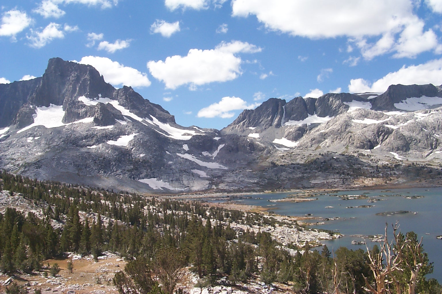 Banner Peak, Mount Davis, and 1000 Island Lake in Ansel Adams Wilderness, California, USA